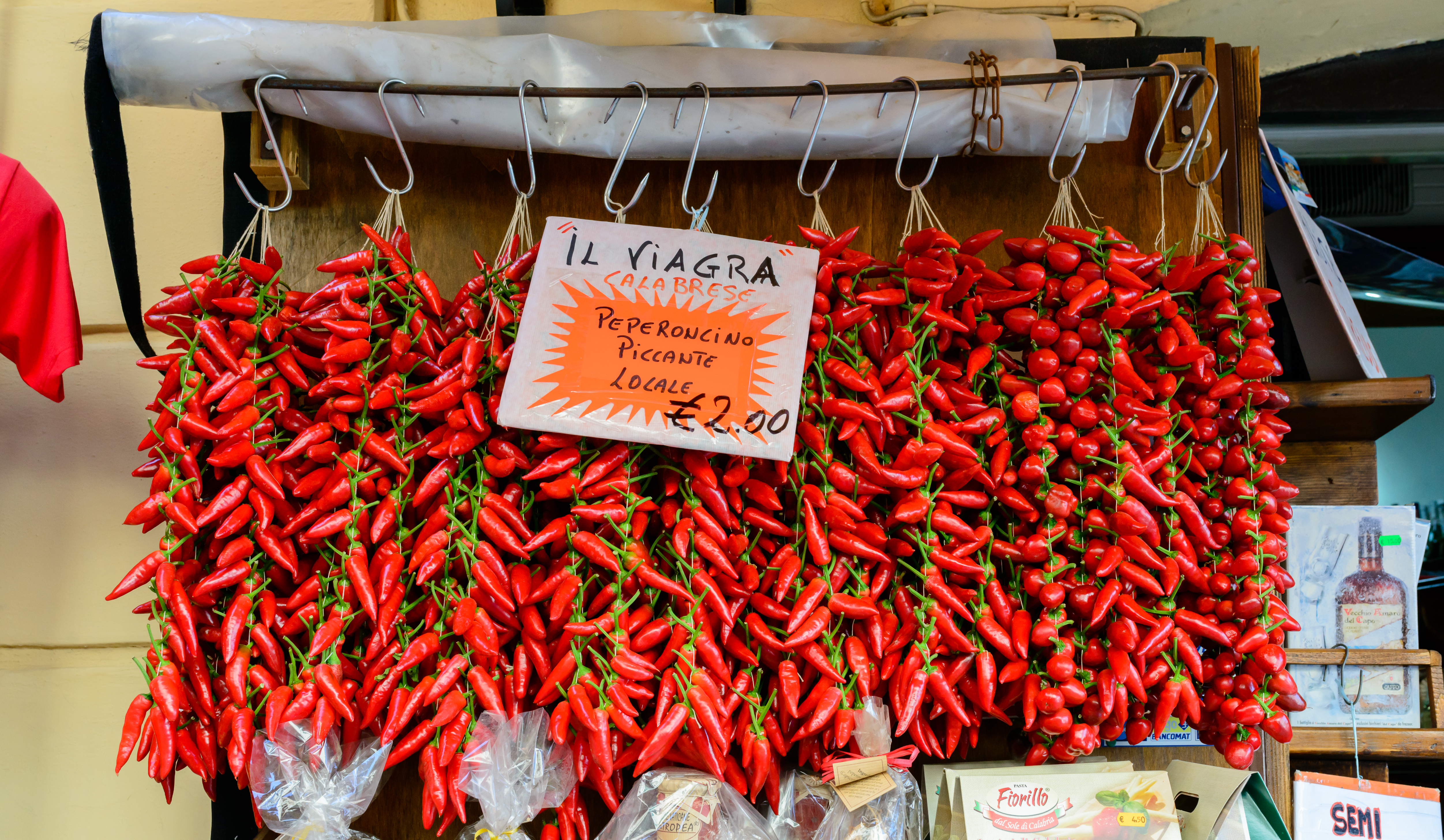 Chili (Capsicum), Tropea, Calabria, Italy. With sign "Il Viagra Calabrese".